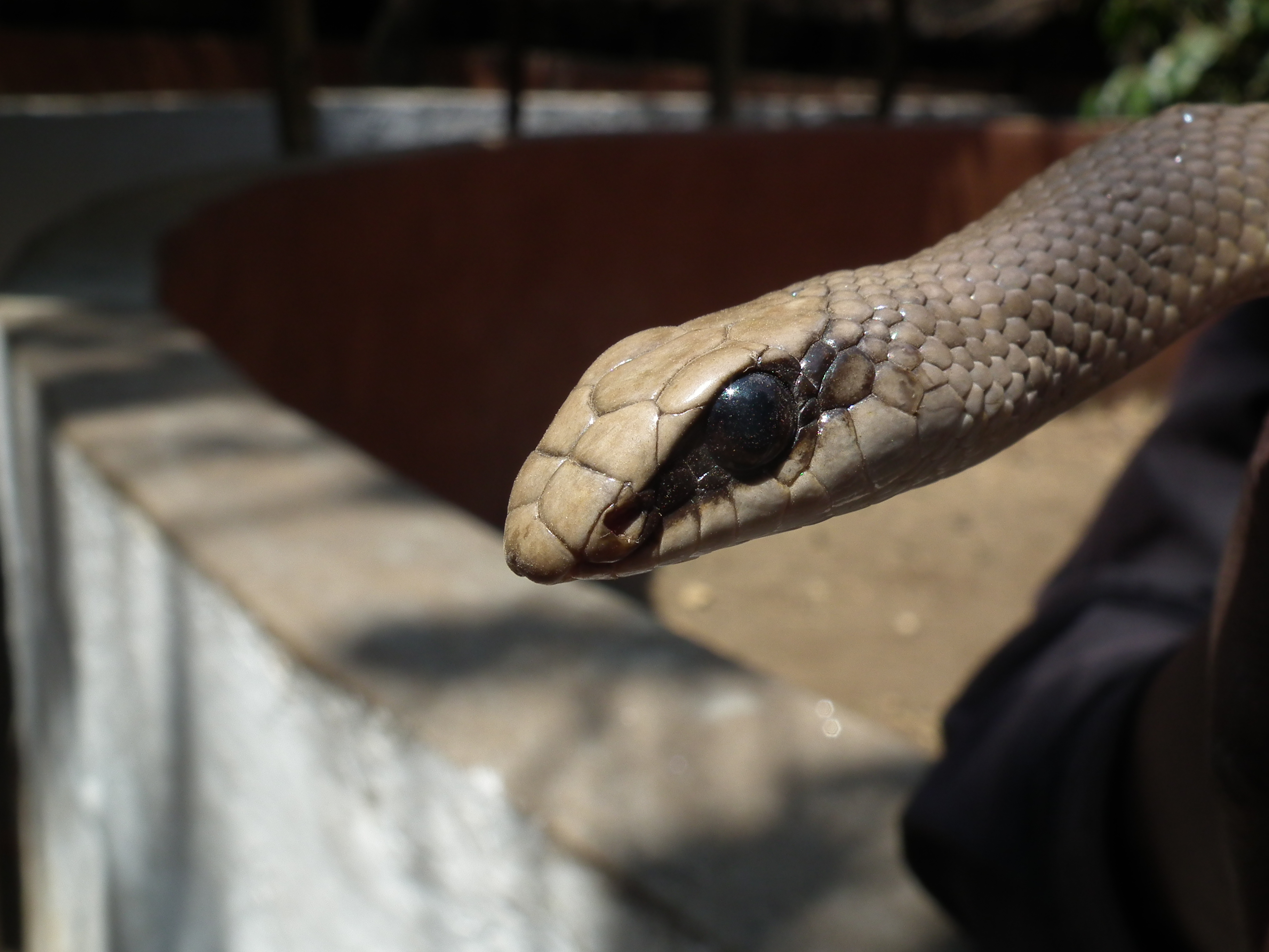 Rufous Beaked Snake, Rufos Beaked Snake, Rufus Beaked Snake, Rhamphiophis rostratus